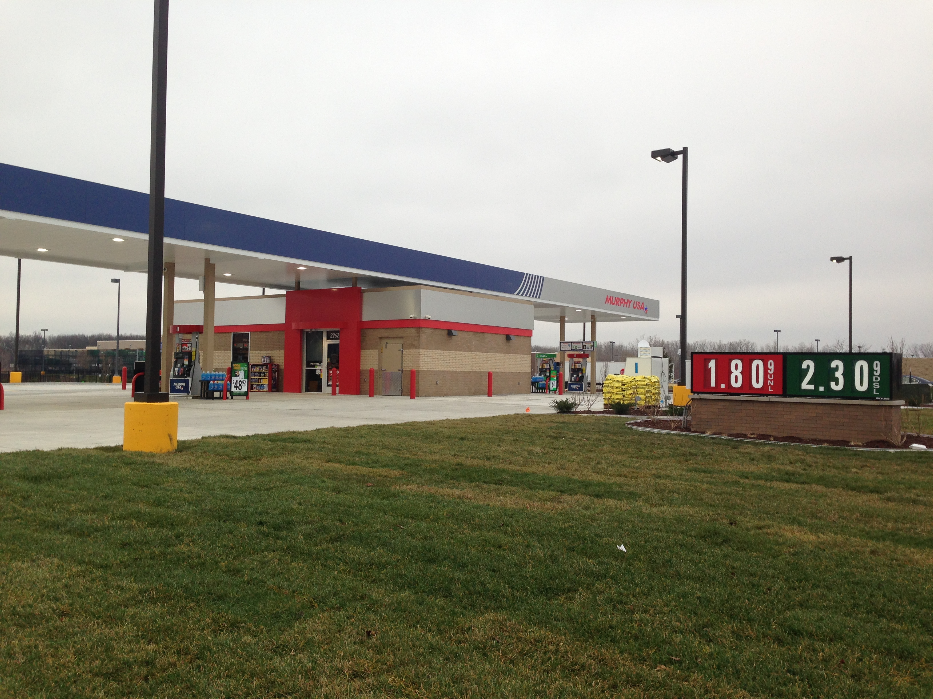 Murphy USA